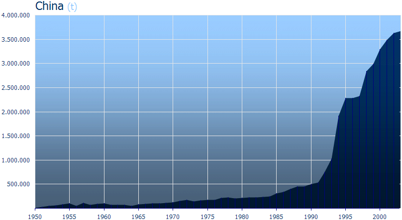 Oyster production in China